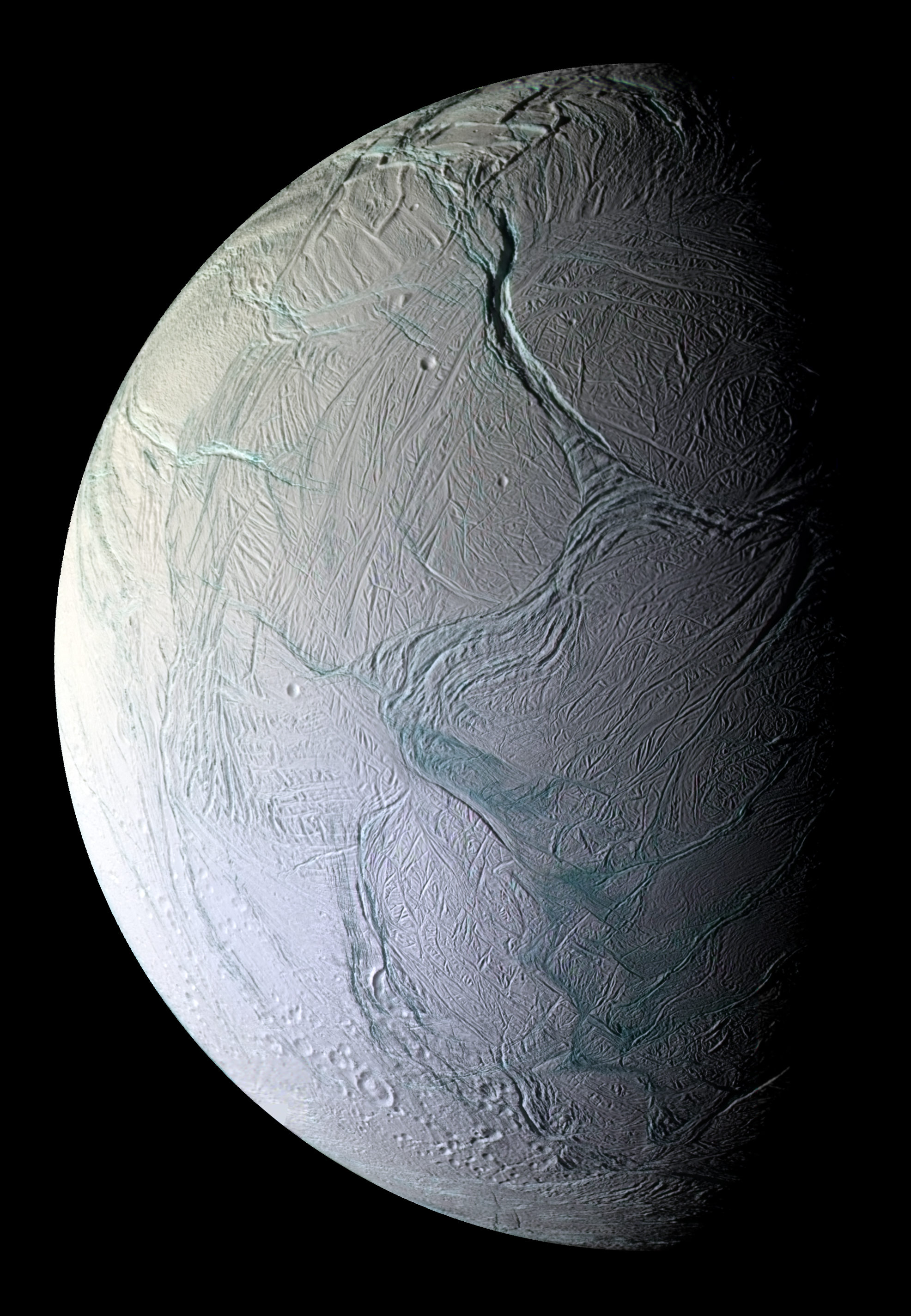 Mosaic image of the Saturnian moon Enceladus just after a 5 October 2008 . This image shows a significant portion of the southern hemisphere, and highlights fractures, folds, and ridges on the moon's surface — all hallmarks of tectonic activity.